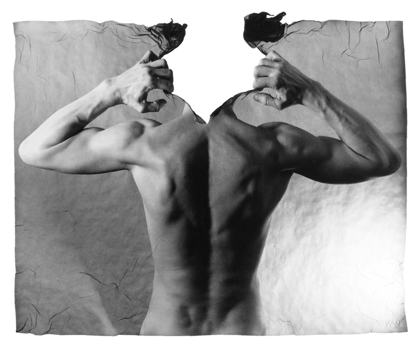 Photograph from Michal Macků